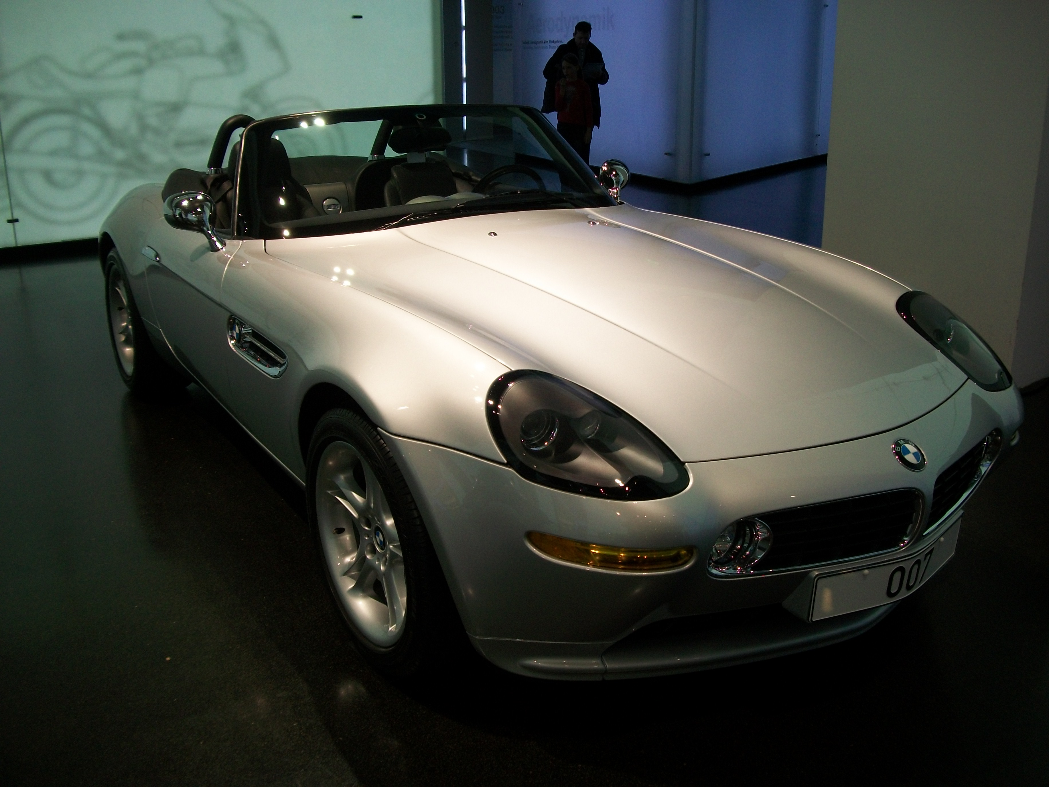 1999 BMW Z8 from the James Bond film "The World is not Enough" in BMW Welt museum,Munich